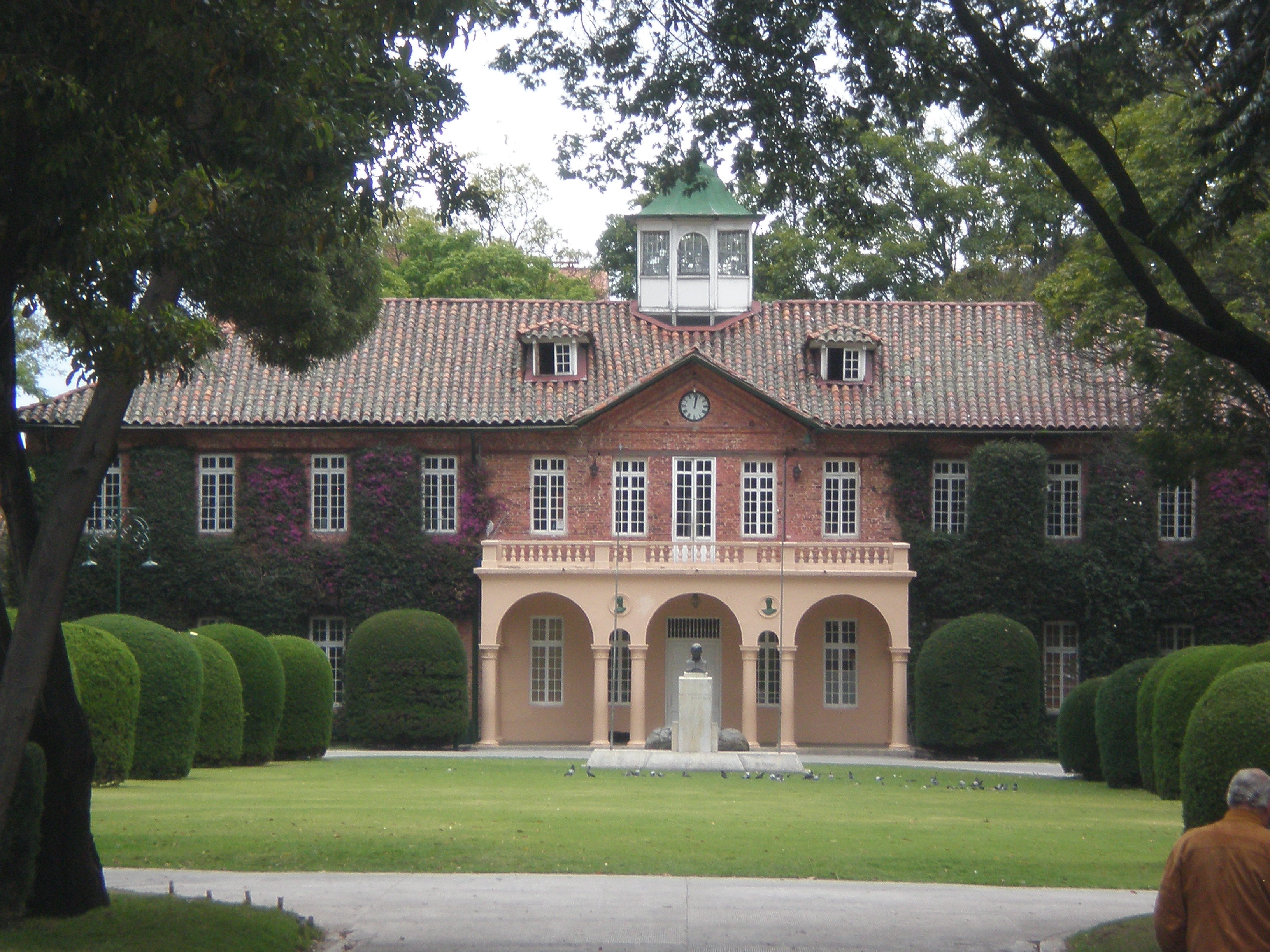 edificio primario, comenzado a construir hace casi un siglo (la institucion es aun mas antigua)